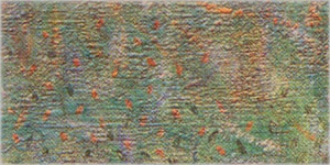 Retouches from the area just above the tip of the shadow of the boy at the centre of Bathers at Asnières. Location approximately one third of the way from the left of the painting, and one third of the way from the bottom.